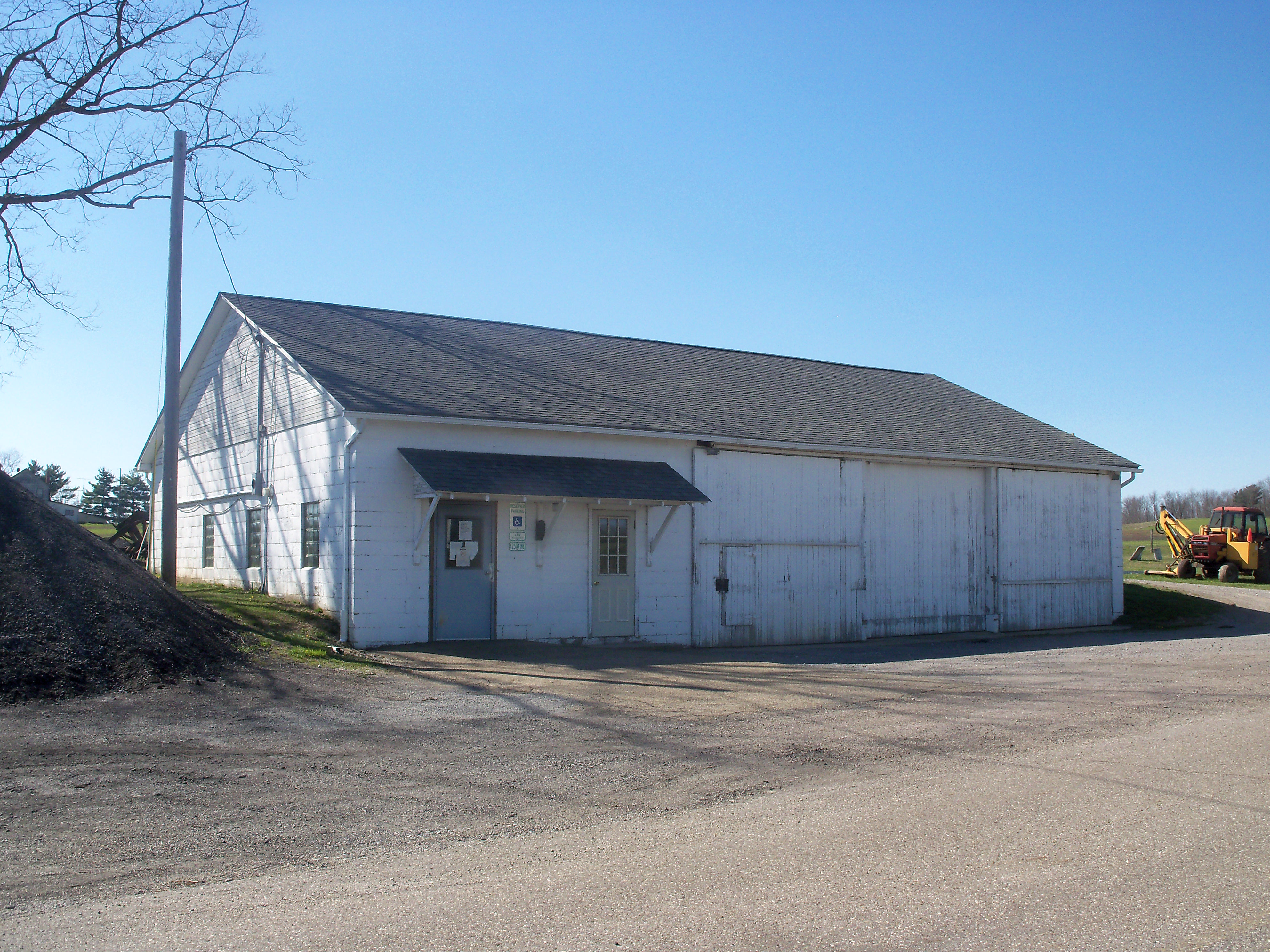 Meeting Hall and Service Garage for East Township, Carroll County, Ohio on corner of Bane Rd and Aurora Rd